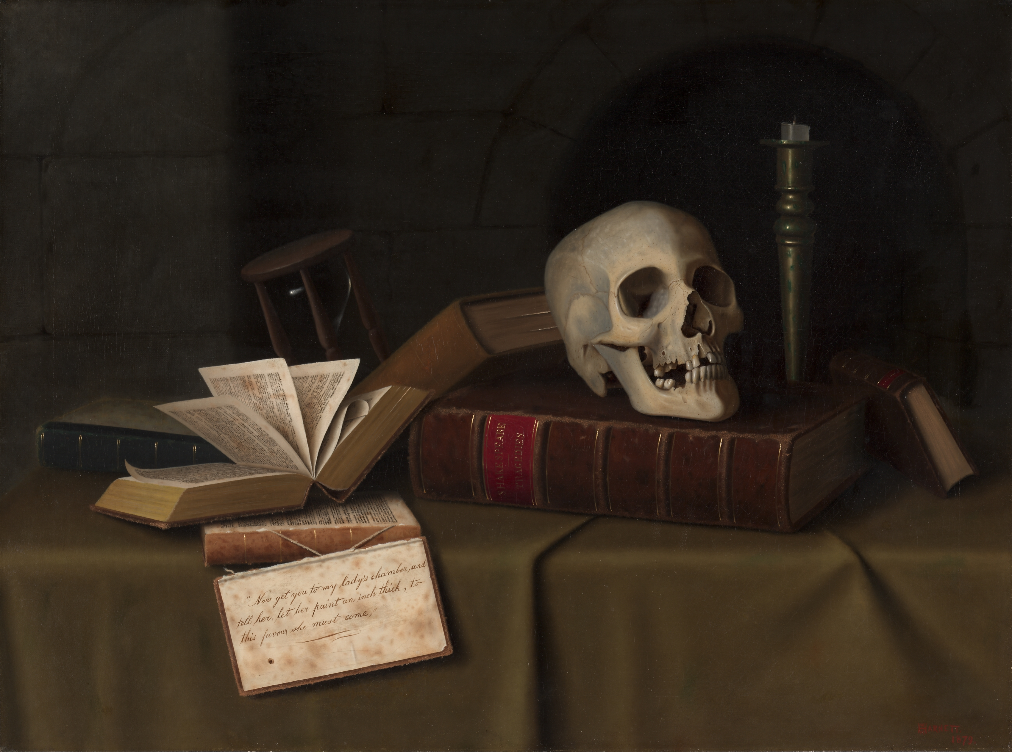 The Latin term memento mori describes a traditional subject in art that addresses mortality. In Harnett’s example, the extinguished candle, spent hourglass, and skull symbolize death. A quote from William Shakespeare’s Hamlet, inscribed on the inside cover of a tattered book, reinforces the theme. It comes from the play’s famed graveyard scene where Hamlet discovers a skull and grimly ponders his beloved Ophelia, ironically unaware that she is already dead. The "paint" in the quote not only refers to Ophelia’s makeup, but also wittily evokes the artifice of Harnett’s picture.